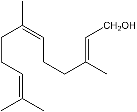 Farnesol